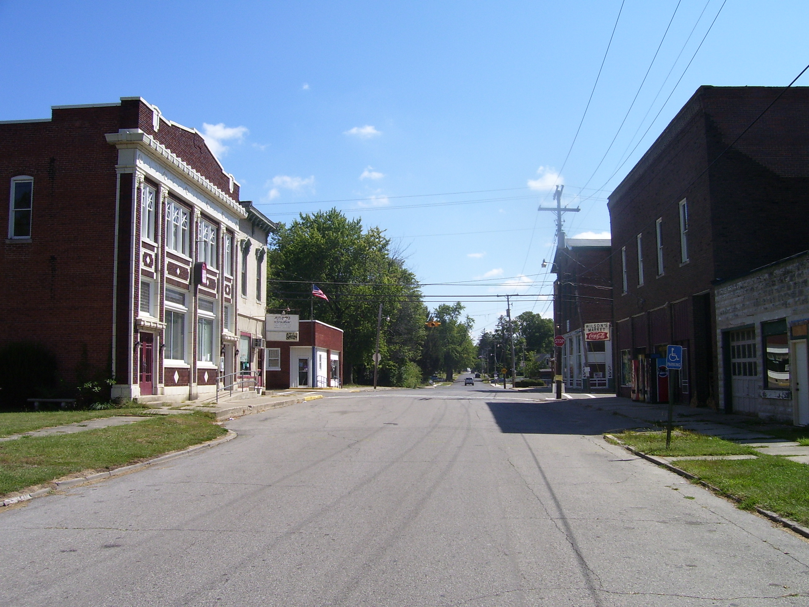 Downtown view of Spiceland, Indiana